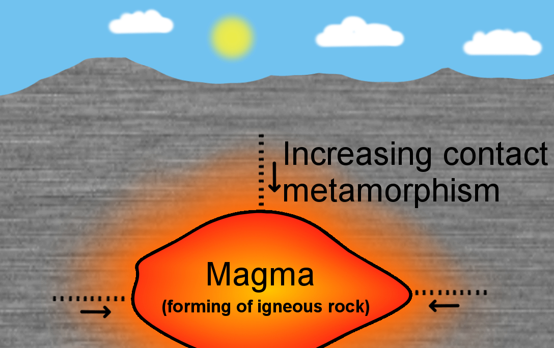 This JPG graphic was created with GIMP. Rock contact metamorphism eng big text - Information for this image can be found in the book: Jorden - Illustrerat uppslagsverk/sid:80 /Förlag: Globe förlaget,2005,/ ISBN 91-7166-020-8 /Orginal title: Earth (ISBN 1-4053-0018-3)(2003 Doring Kindersley)